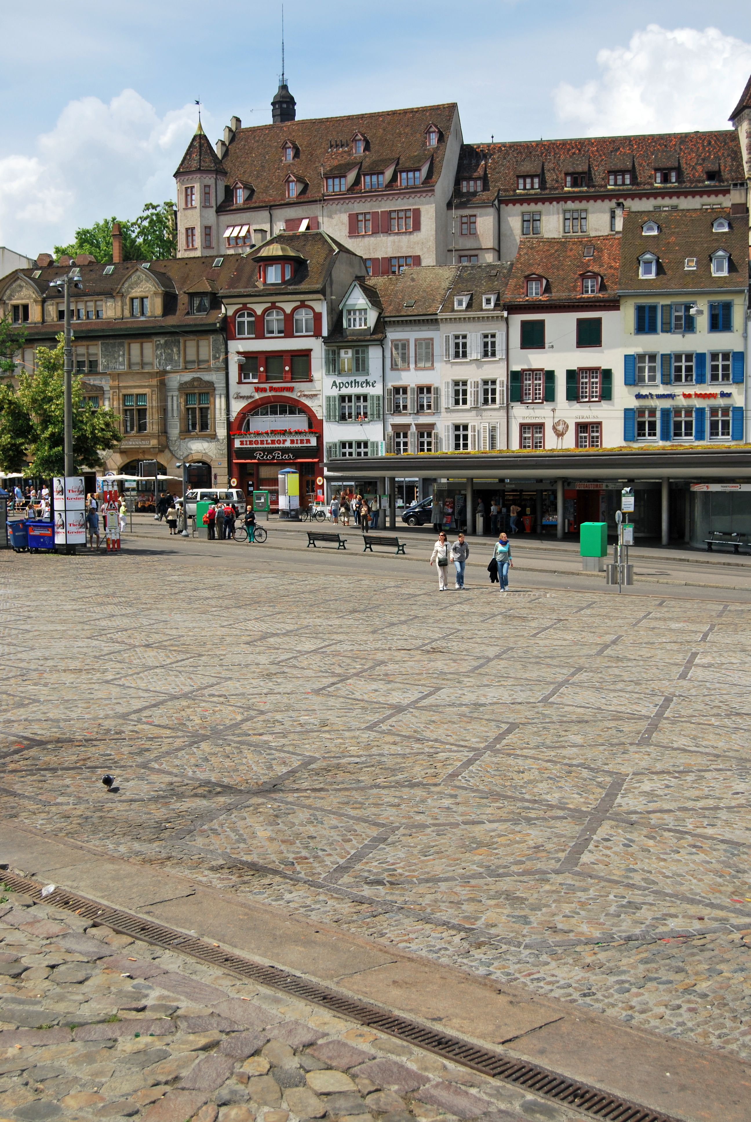 Barfüsserplatz